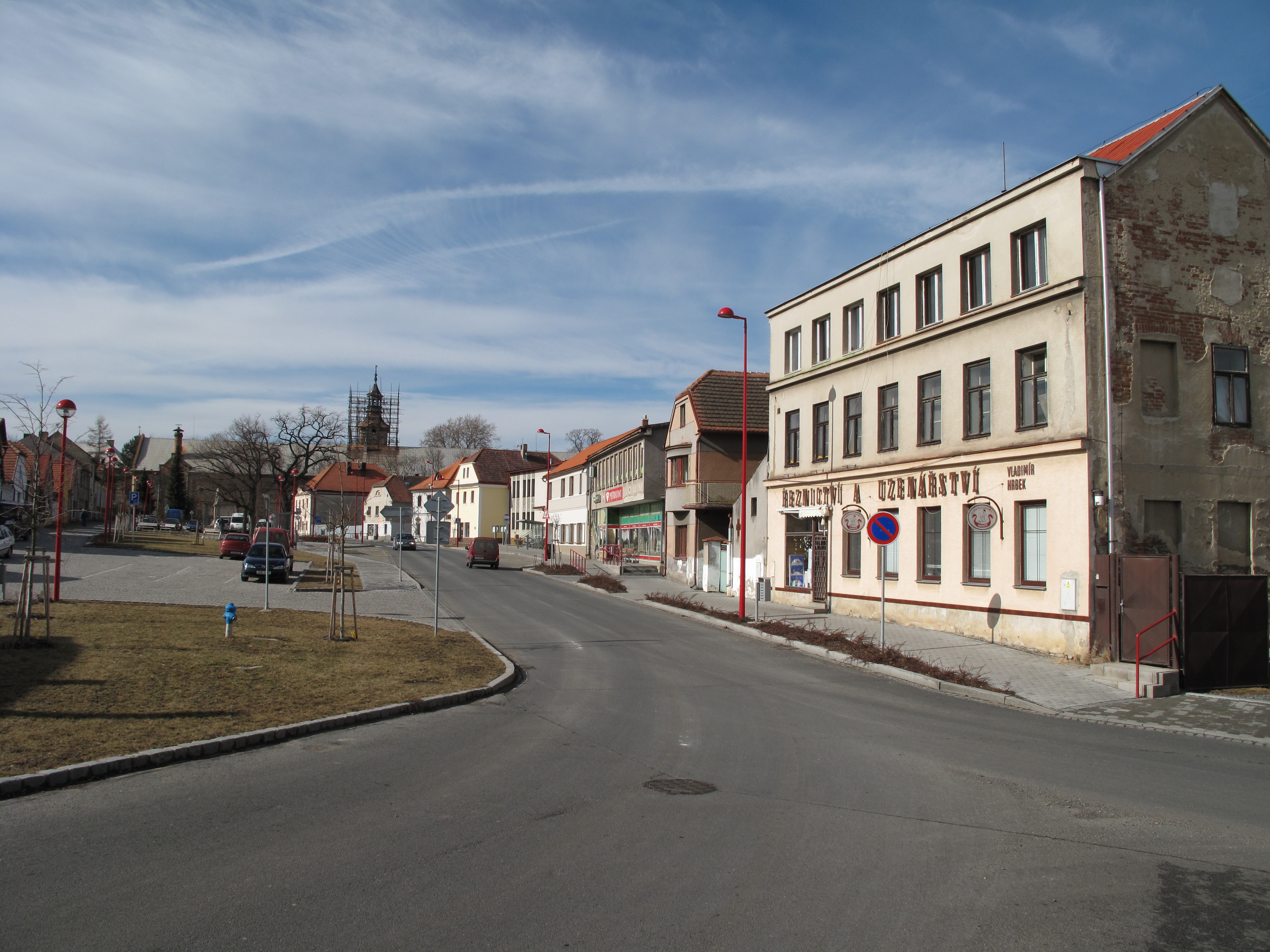 1. máje square at Červené Pečky market town, Kolín District, Czech Republic.